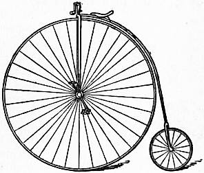 Rudge Racing Ordinary, 1887